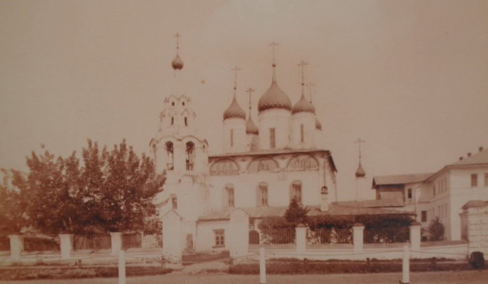 Yaroslavl, Church of St John Chrysostom in Rubleny Gorod (1690, demolished around 1930) as seen from Sobornaya Square.